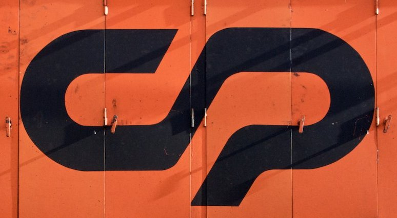 Logo of the old portuguese railway operator, Caminhos de Ferro Portugueses, in the side of an 1550 series locomotive.